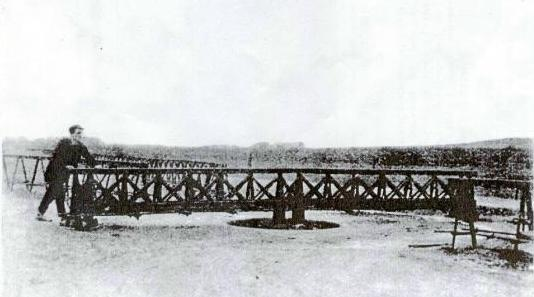 Switch system of the Lartigue Monorailway